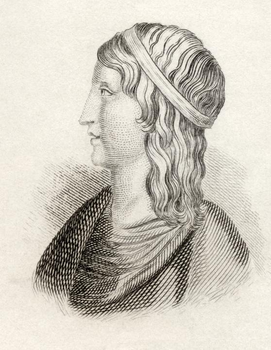 Lucius Apuleius Platonicus (123/5-c.180), Platonic philosopher and Latin prose writer